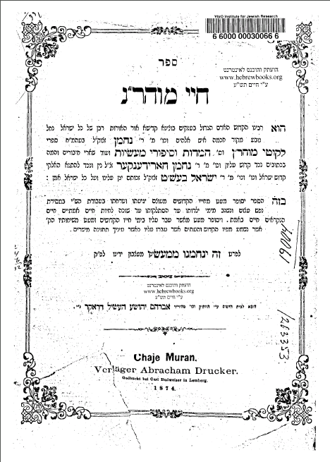 Sha`ar Blatt (Title Page) to Chayey Moharan (חיי מוהר"ן) first printing, 1874, Lemberg, published and edited by Rabbi Nachman Goldstein, Rav of Tcherin, printed by Avraham Drucker and bound by Carl Budweiser.